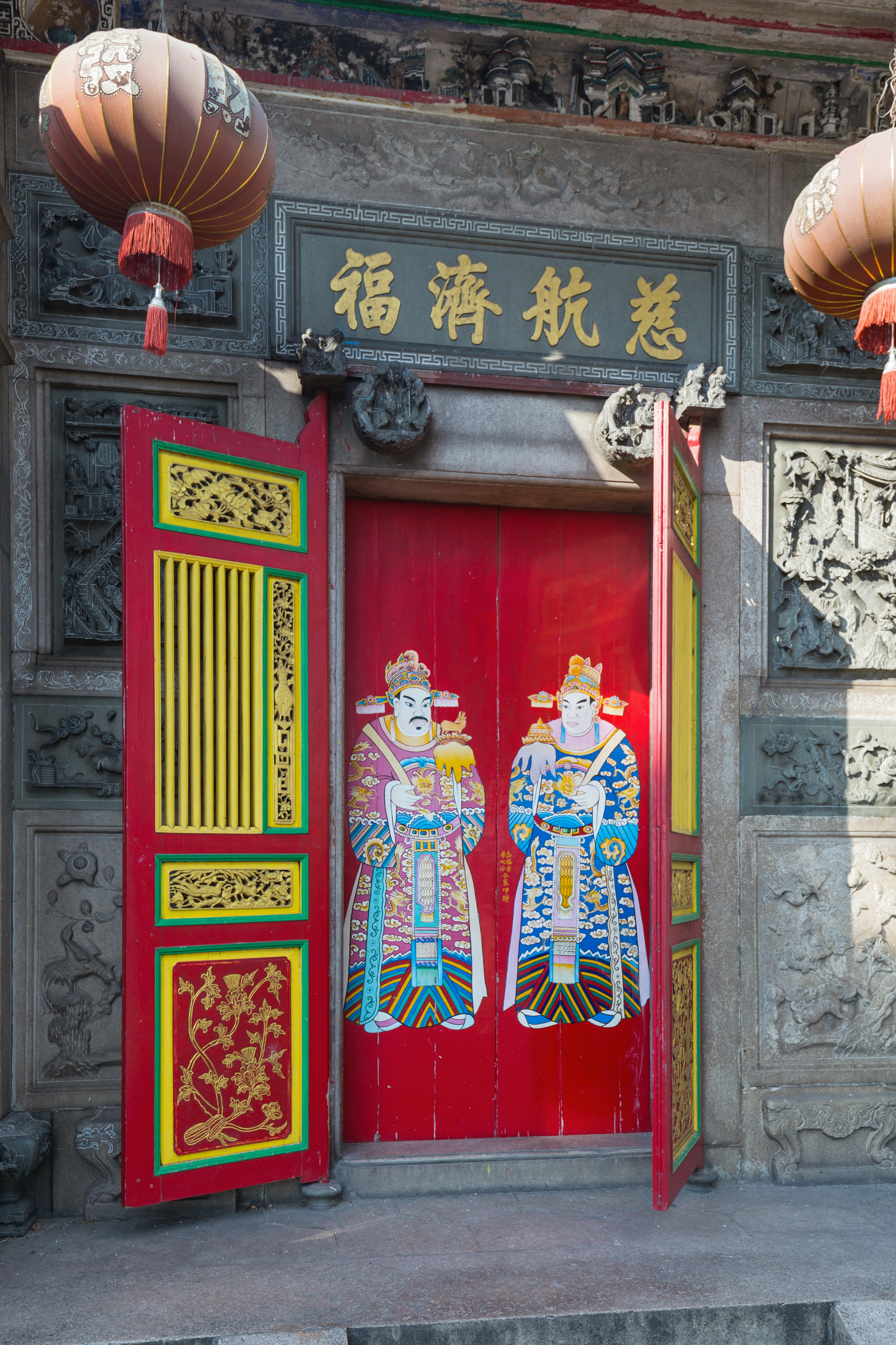 Kheng Hock Keong. Yangon, Myanmar.